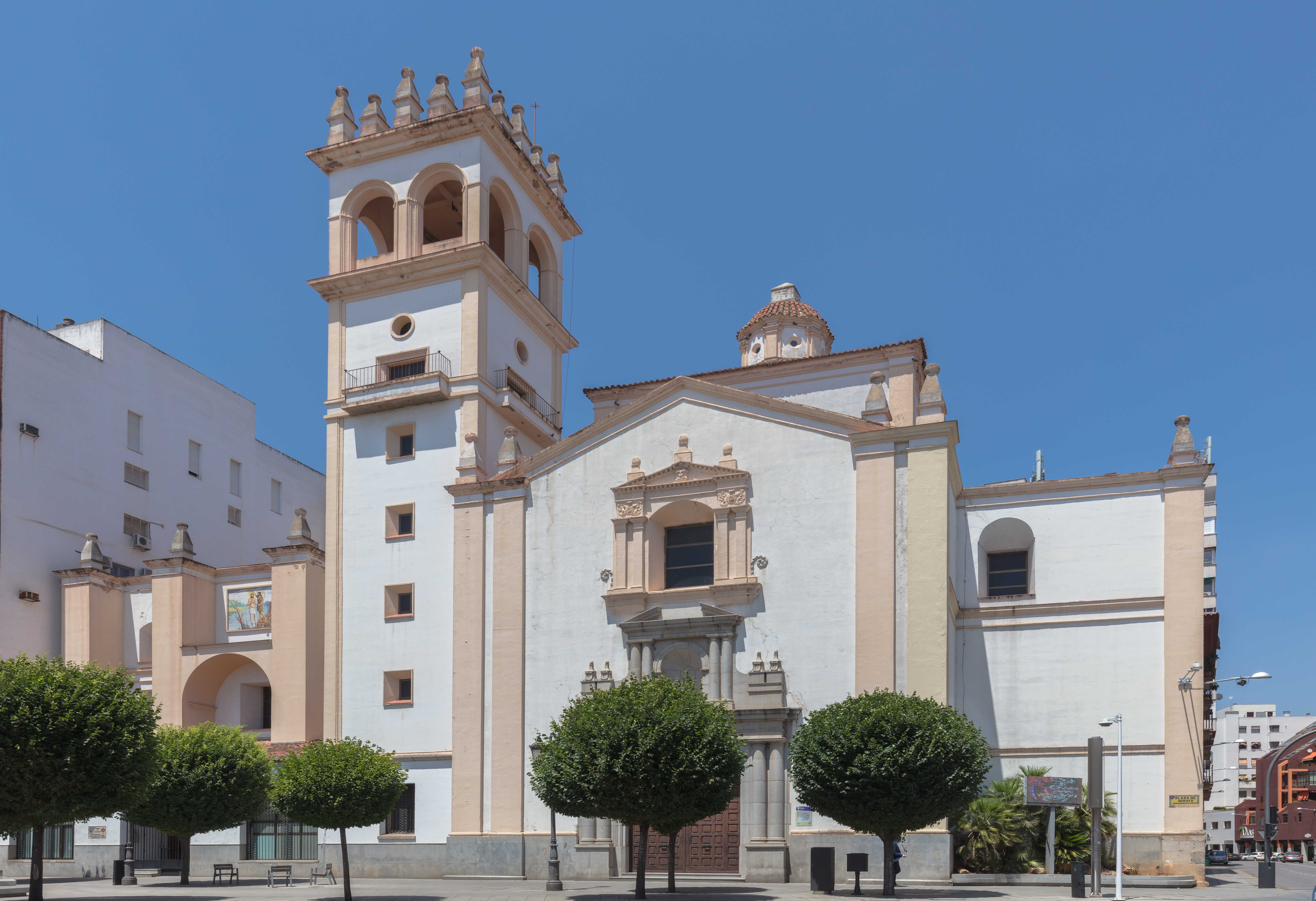 Church of John the Baptist, Badajoz, Spain